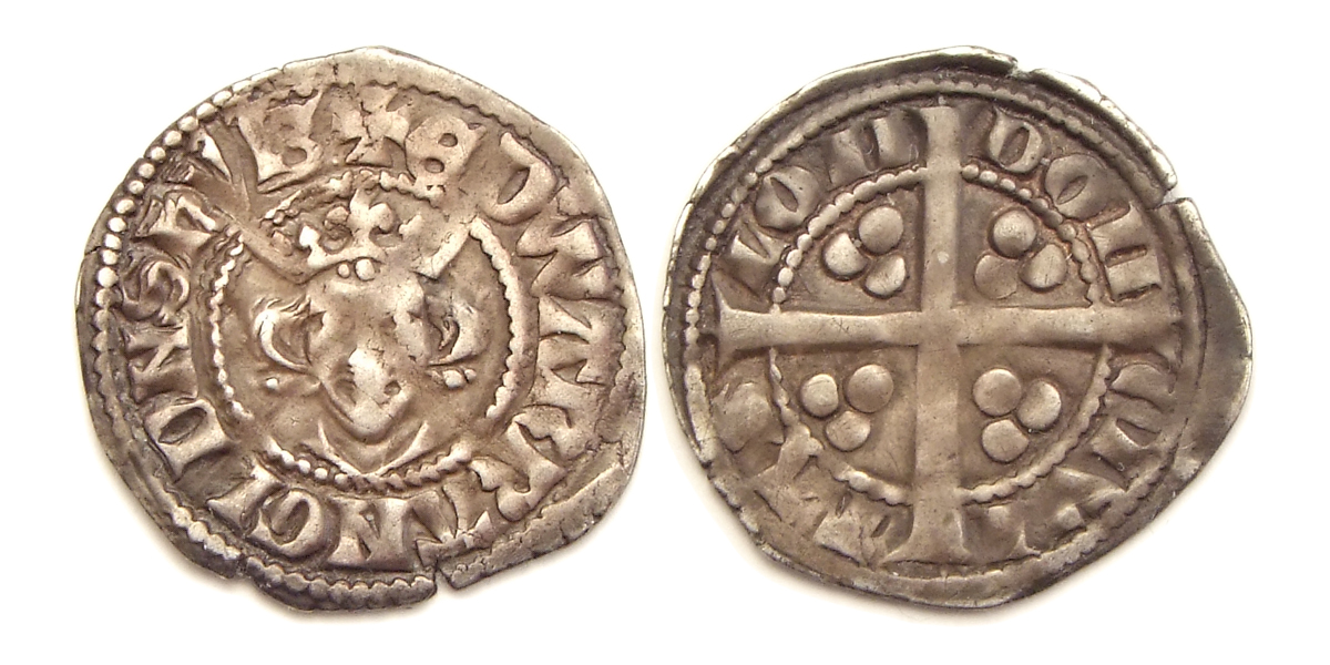 Long cross type penny with portrait of Edward I, struck London. Obv: EDWARR ANGL DNS HYB Rev: CIV ITAS LON DON